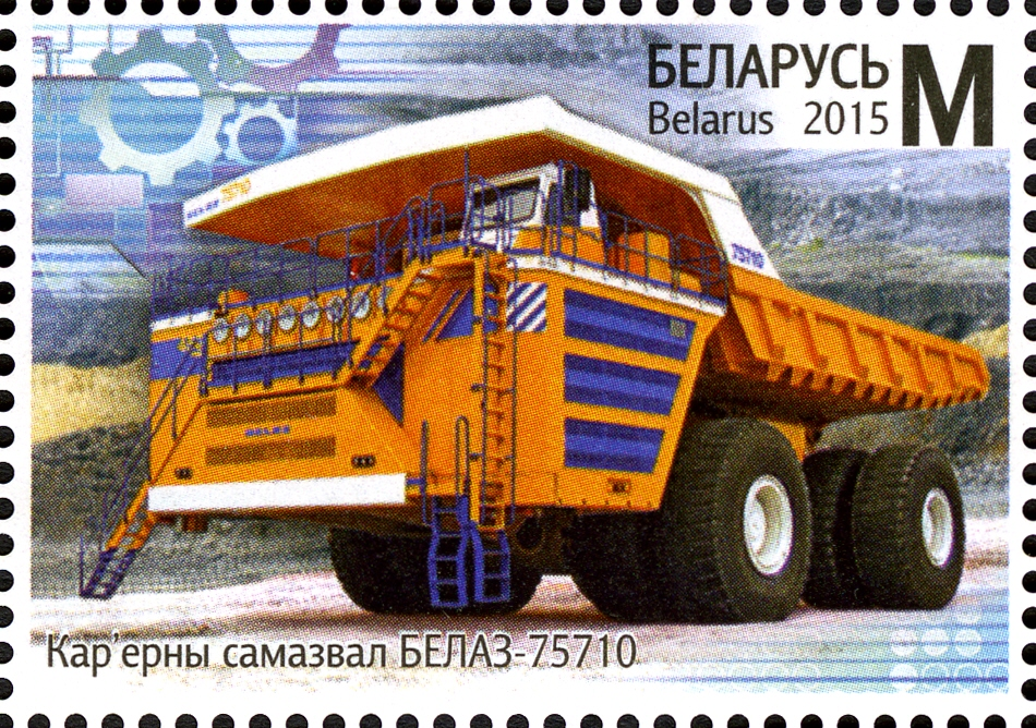 Stamps of Belarus